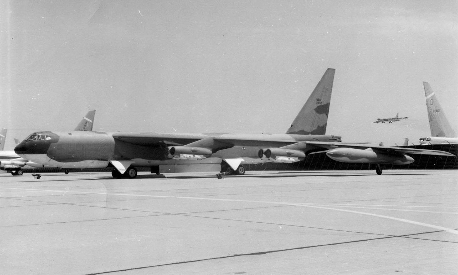 Boeing B-52F-65-BW (SN 57-0153)